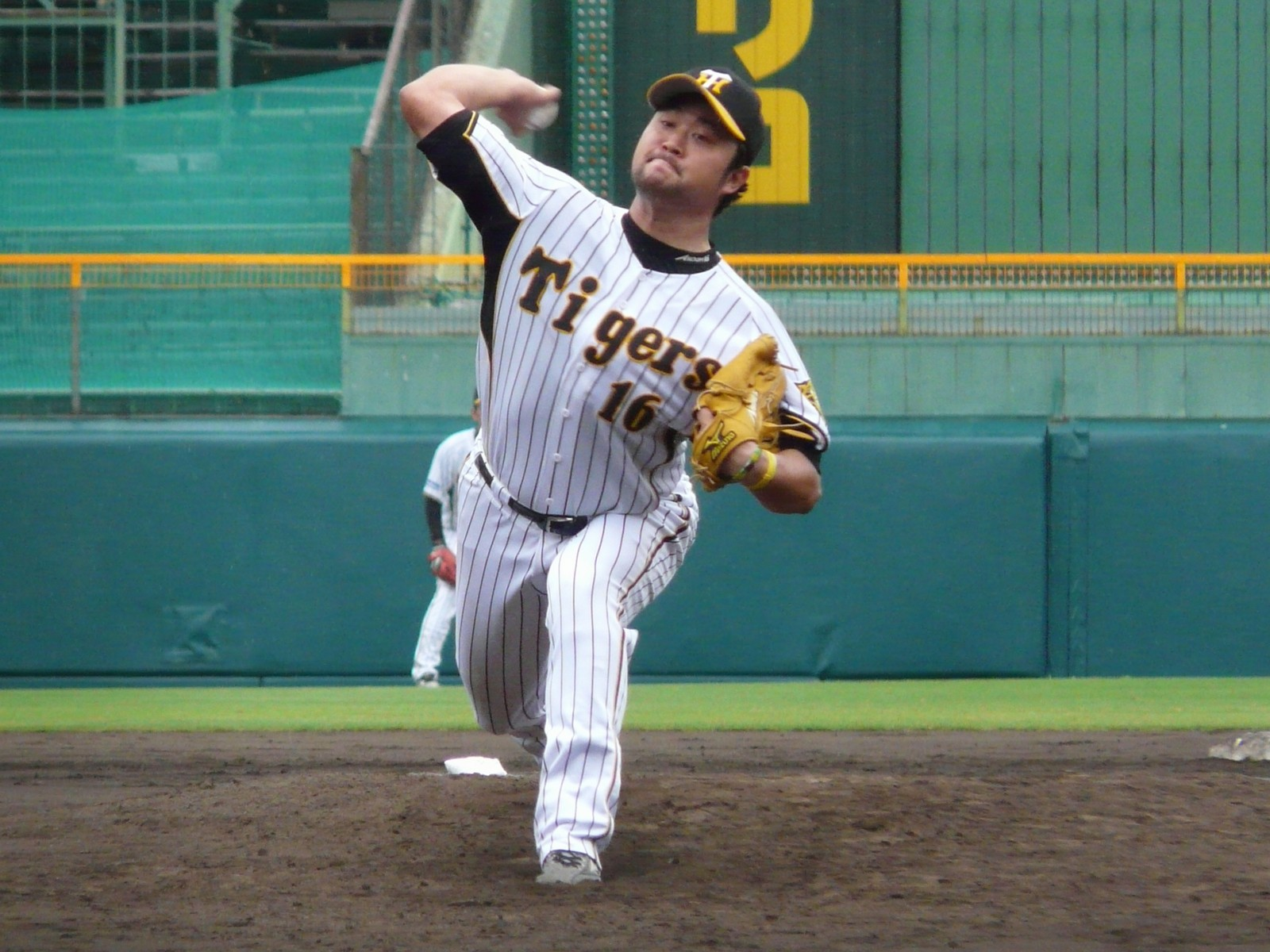 Copied from 画像:HT-Yuya-Ando.jpg: "安藤優也"